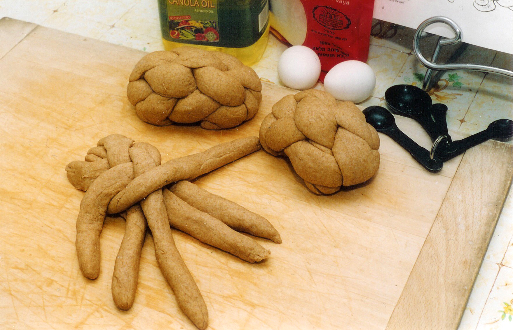 Photo of 6-braid whole-wheat challah in the process of being shaped for baking.